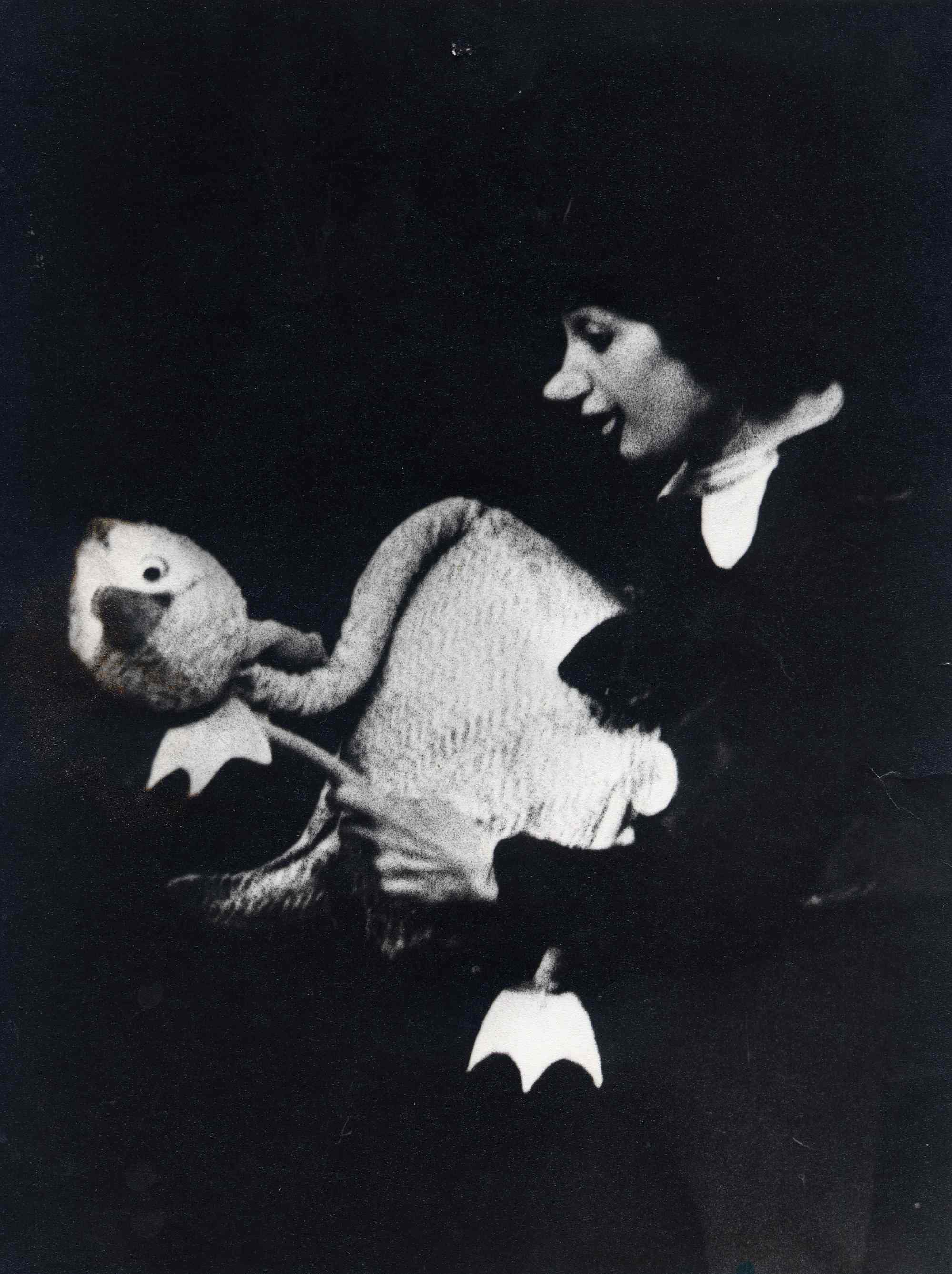 Vladimir Olshansky, in the sketch "The Swan". Variety Theatre St,Petersburg, Russia, 1977